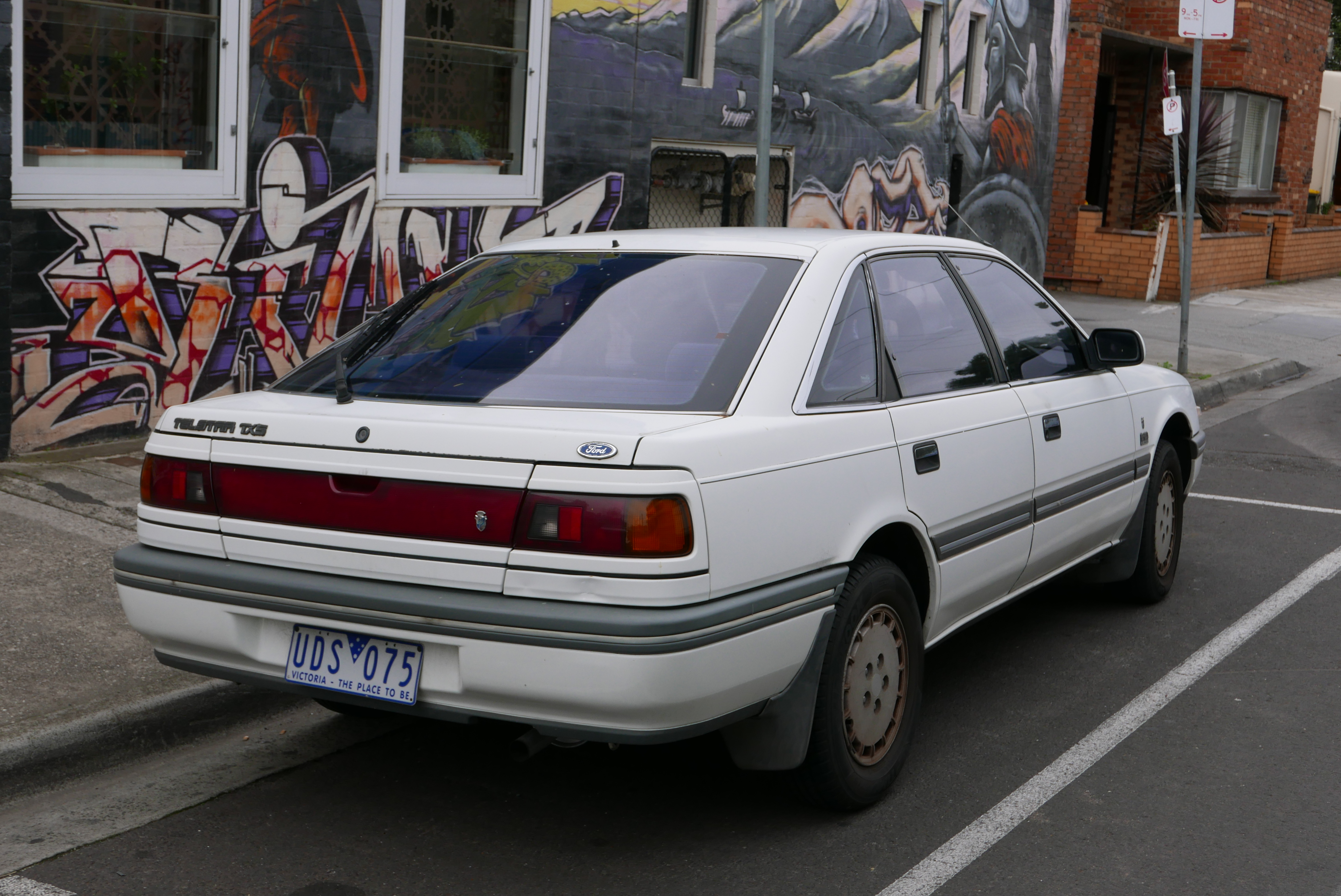 1988 Ford Telstar TX5 (AT) Ghia hatchback. Photographed in Brunswick East, Victoria, Australia. Vehicle registration enquiry results Jurisdiction Victoria Registration UDS075 Chassis code 5HWTJK14280 Engine code F2460170 Compliance date Not available Year of manufacture 1988